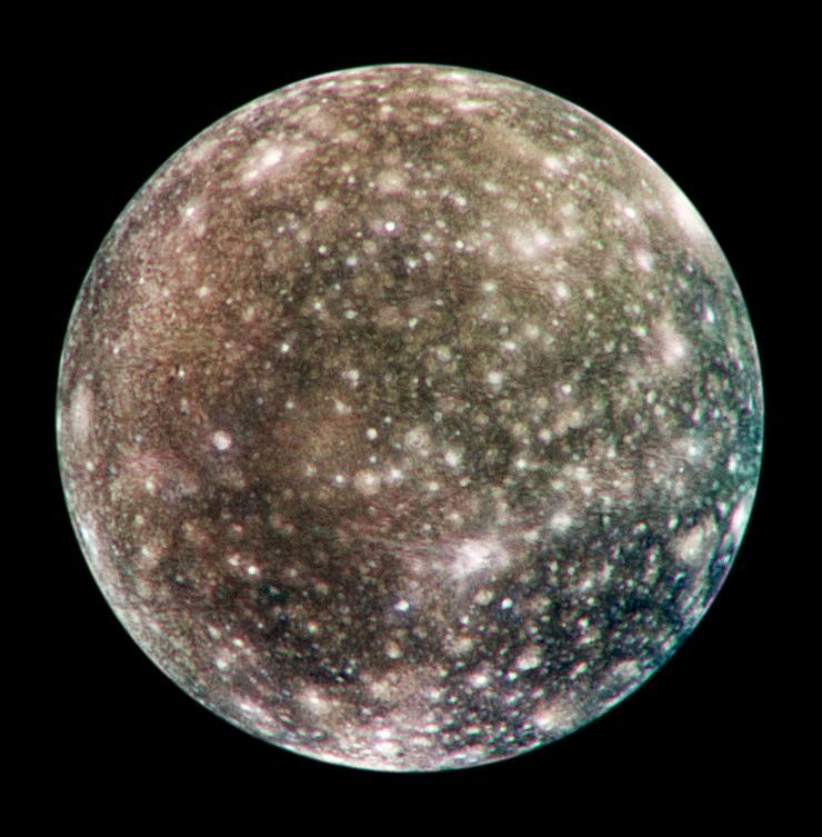 Bright scars on a darker surface testify to a long history of impacts on Jupiter's moon Callisto in this image of Callisto from NASA's Galileo spacecraft. The picture, taken in May 2001, is the only complete global color image of Callisto obtained by Galileo, which has been orbiting Jupiter since December 1995. Of Jupiter's four largest moons, Callisto orbits farthest from the giant planet. Callisto's surface is uniformly cratered but is not uniform in color or brightness. Scientists believe the brighter areas are mainly ice and the darker areas are highly eroded, ice-poor material.